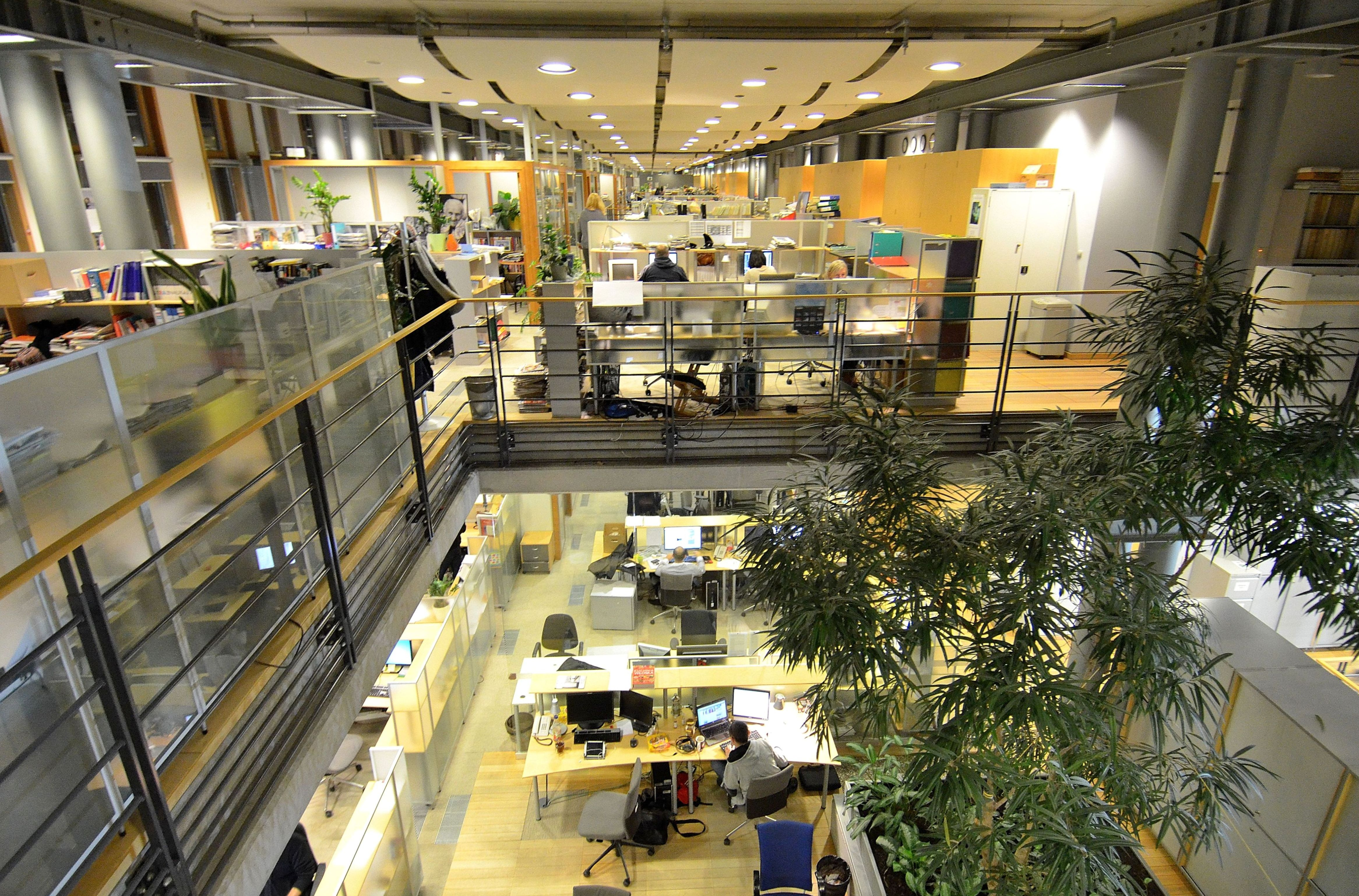 Office of "Gazeta Wyborcza" at 8/10 Czerska Street in Warsaw